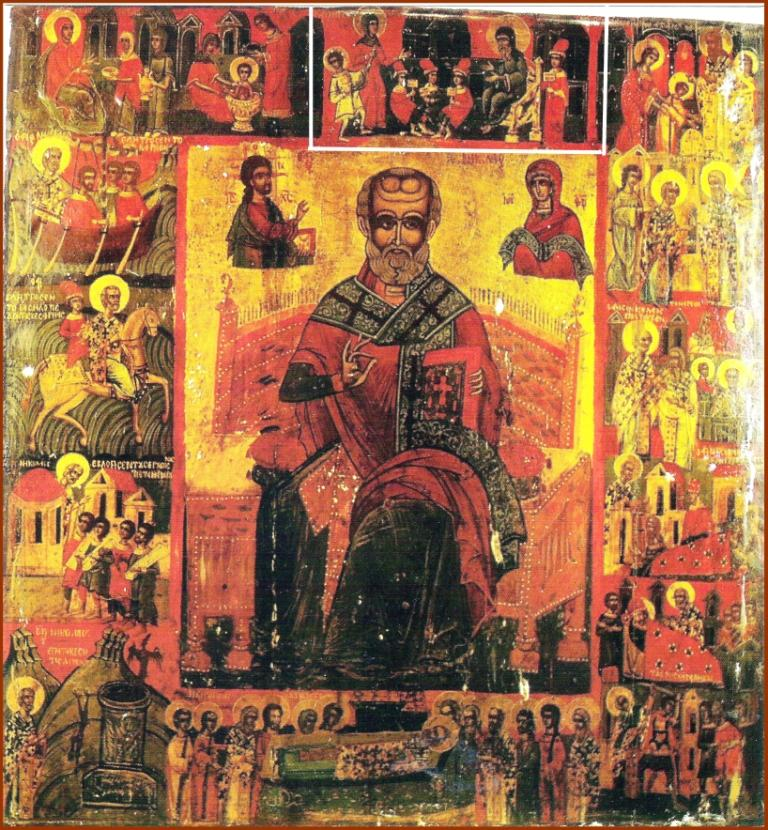 Saint Nicholas and Saint Charalambos Church, Kastoria, Saint Nicholas Icon with Scenes from his Life